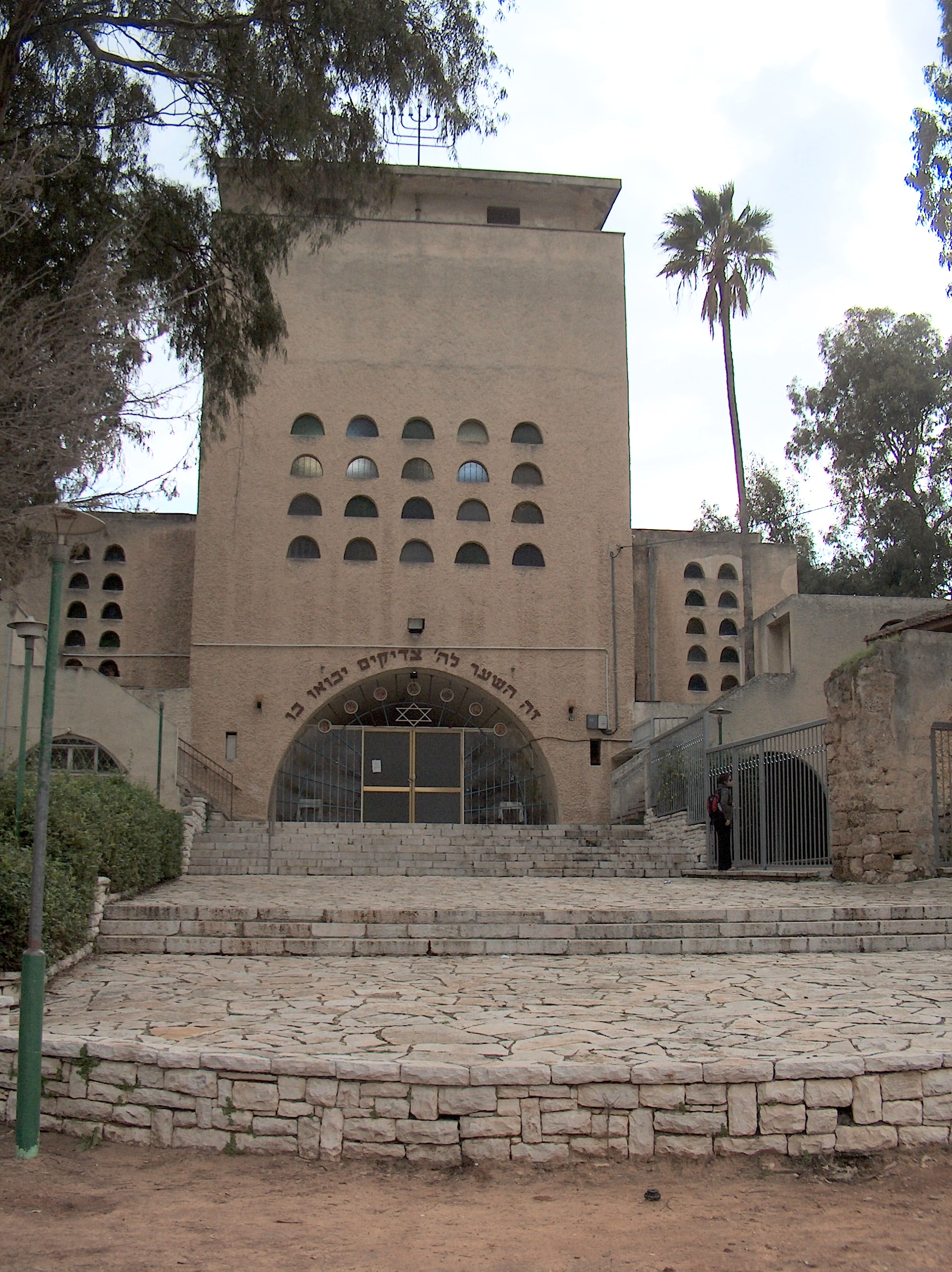 The Great Synagogue in Hadera, Israel. Built 1936-1940, planned by Architect Yehudit Shtultzer-Segal. Partially built on the ruins of Hadera's historic Han building, which is used today as a historical museum.